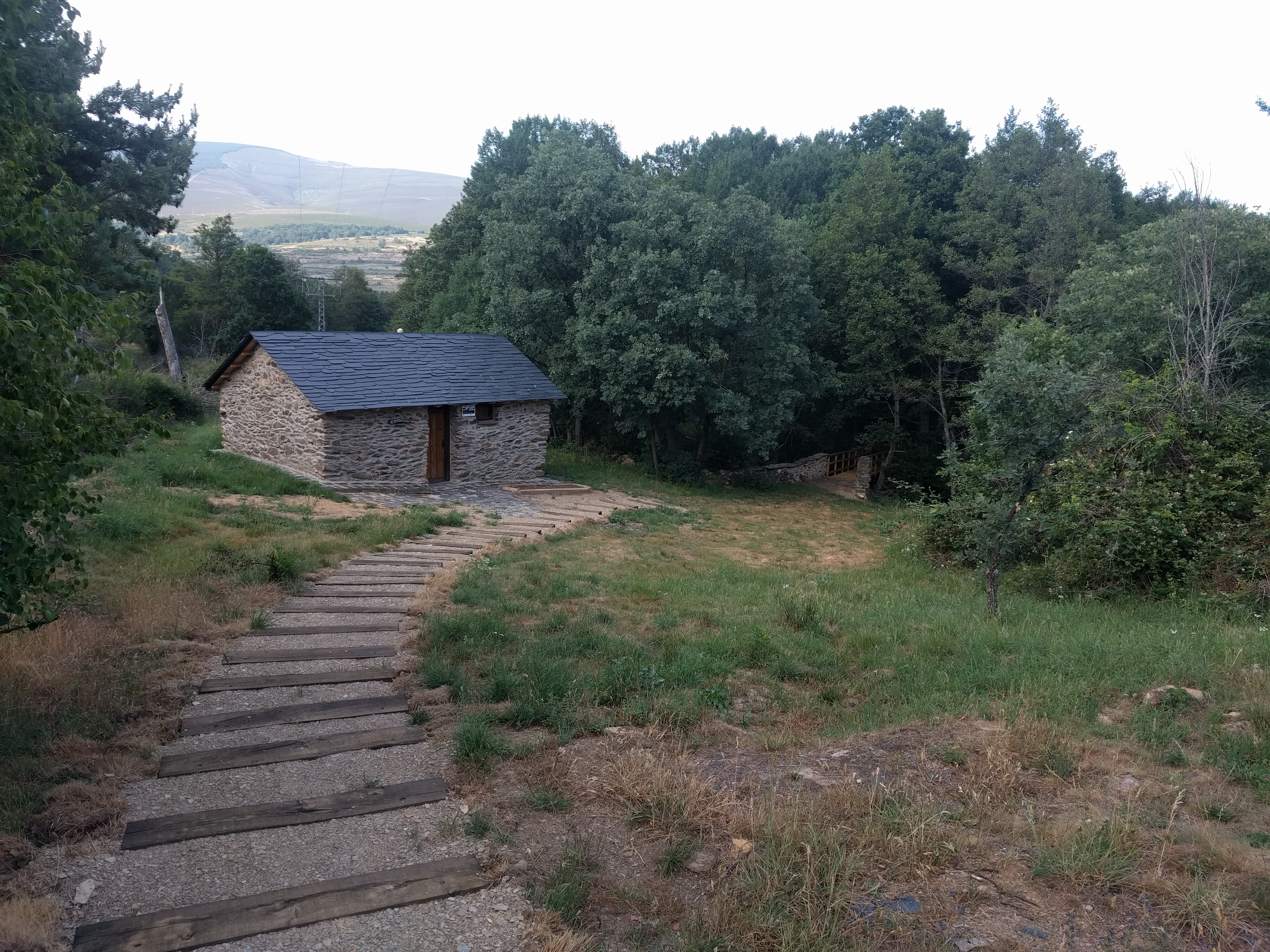 Fragua de Valdavido